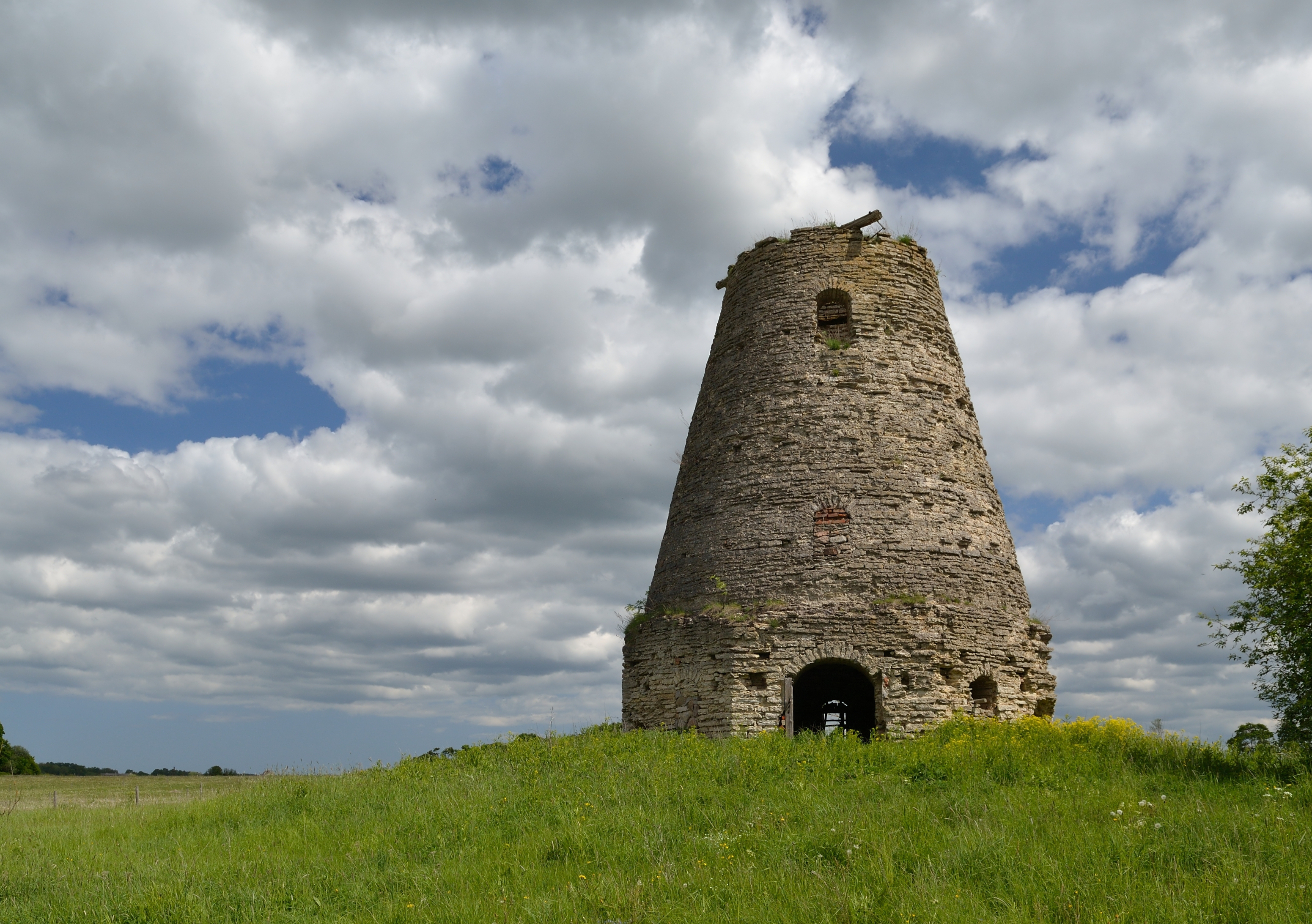 Rägavere manor windmill ruins